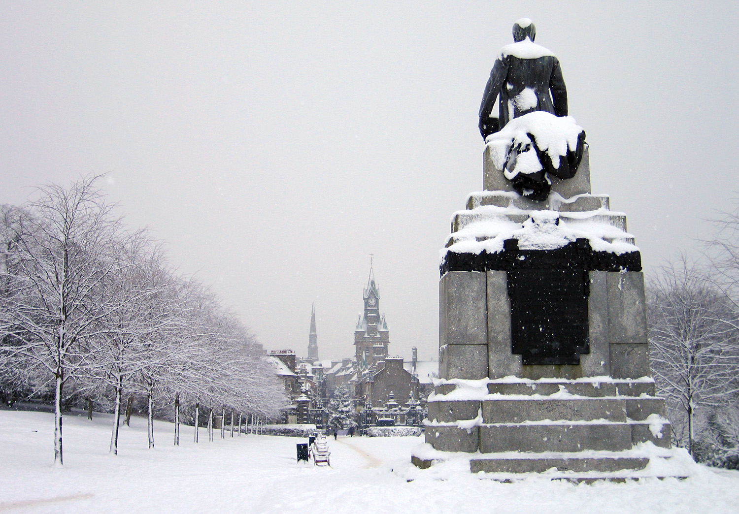 Carnegie's Statue, Dunfermline